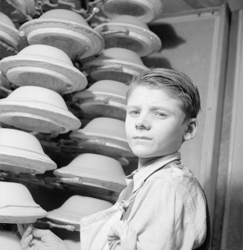 Pottery in the Making- the work of J and G Meakin Pottery, Hanley, Stoke-on-trent, Staffordshire, England, 1942 Potter's attendant Ken Russell stacks plates into the drying oven at this factory, somewhere in Britain.